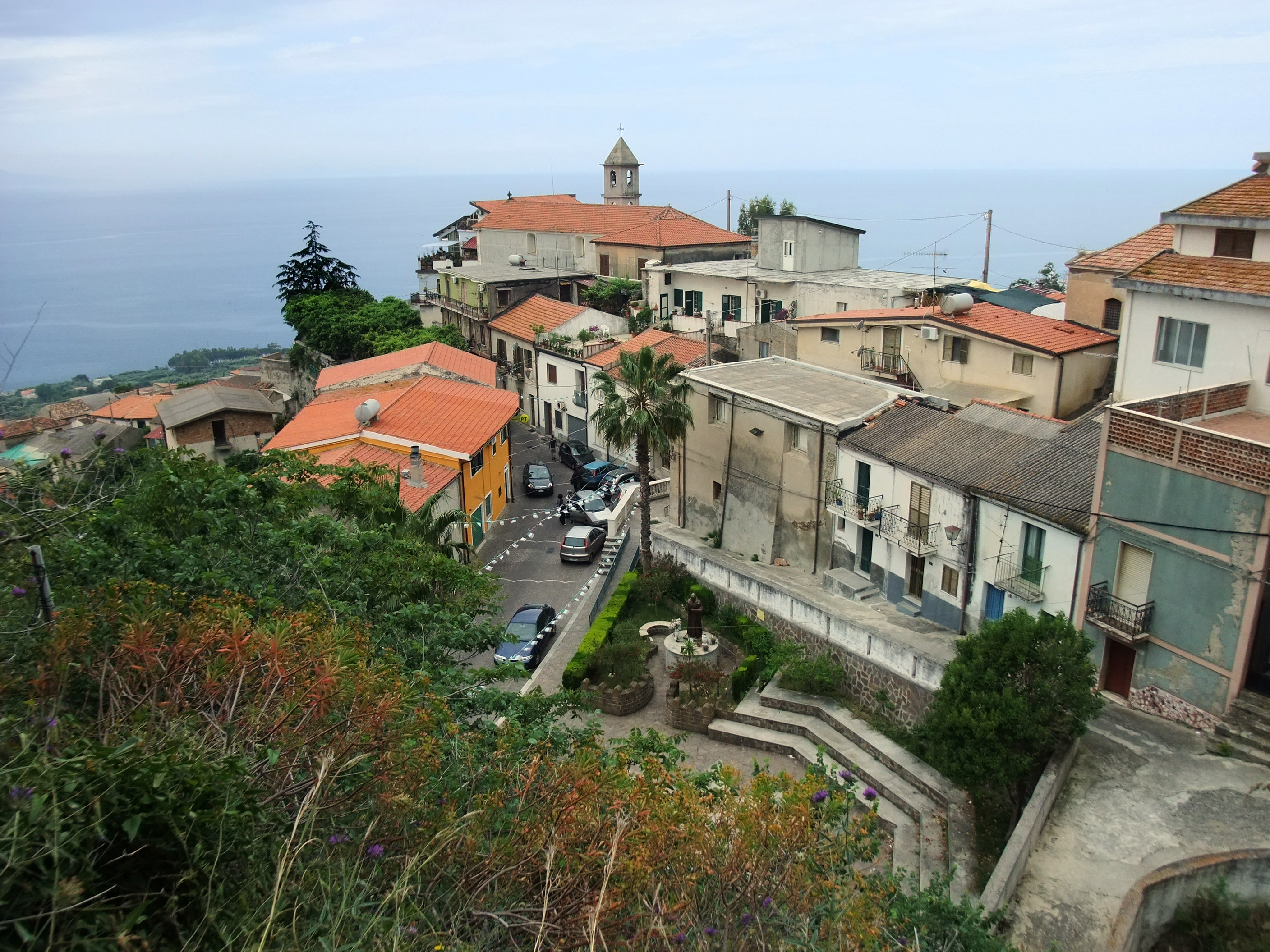 Calabria is the southernmost region of the Italian peninsula. View of the municipality Joppolo.